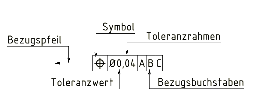 German version of: GD&L.PNG